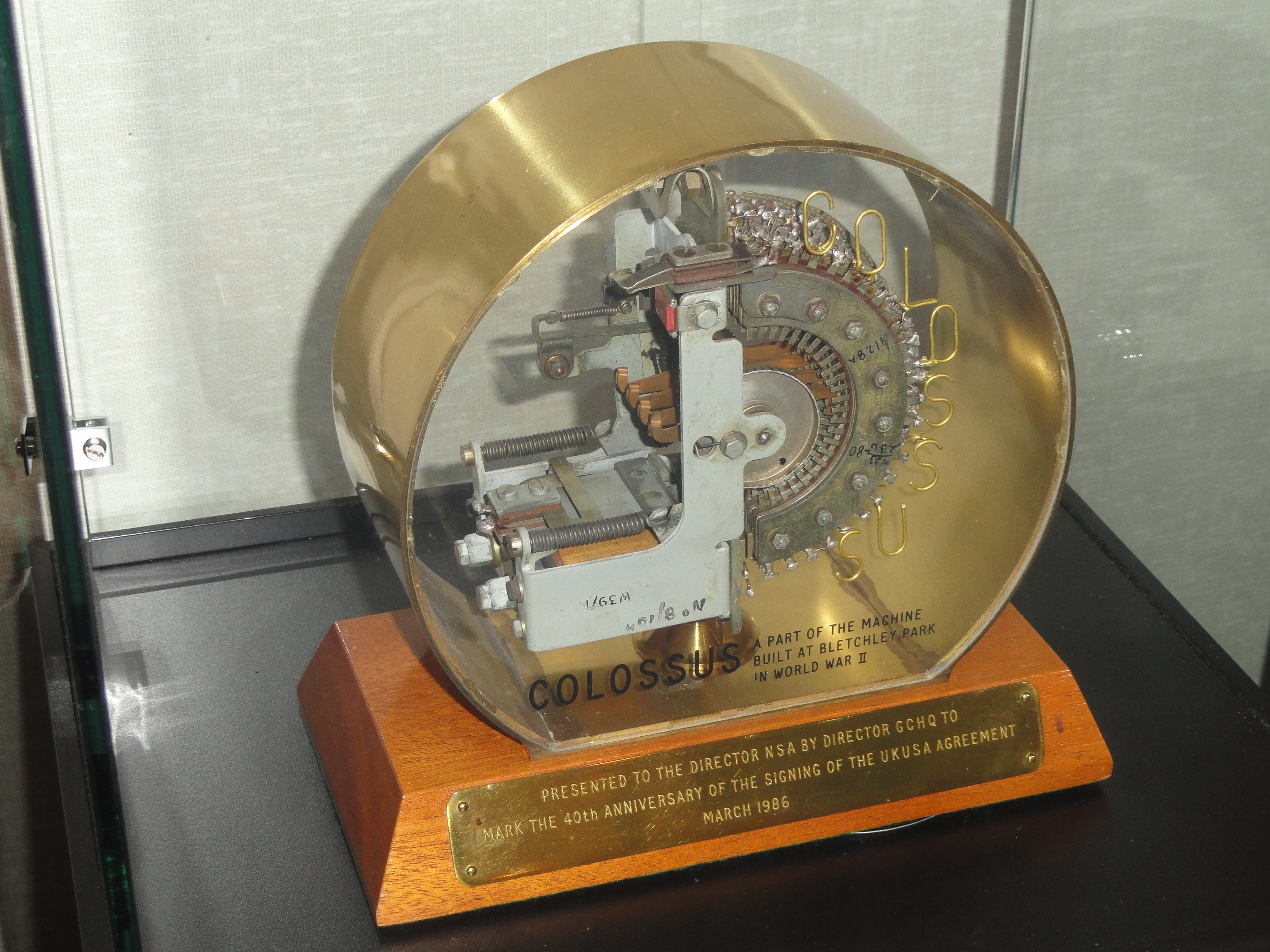 Exhibit in the National Cryptologic Museum, Fort Meade, Maryland, USA. All items in this museum are unclassified; items created by the United States Government are not subject to copyright restrictions.